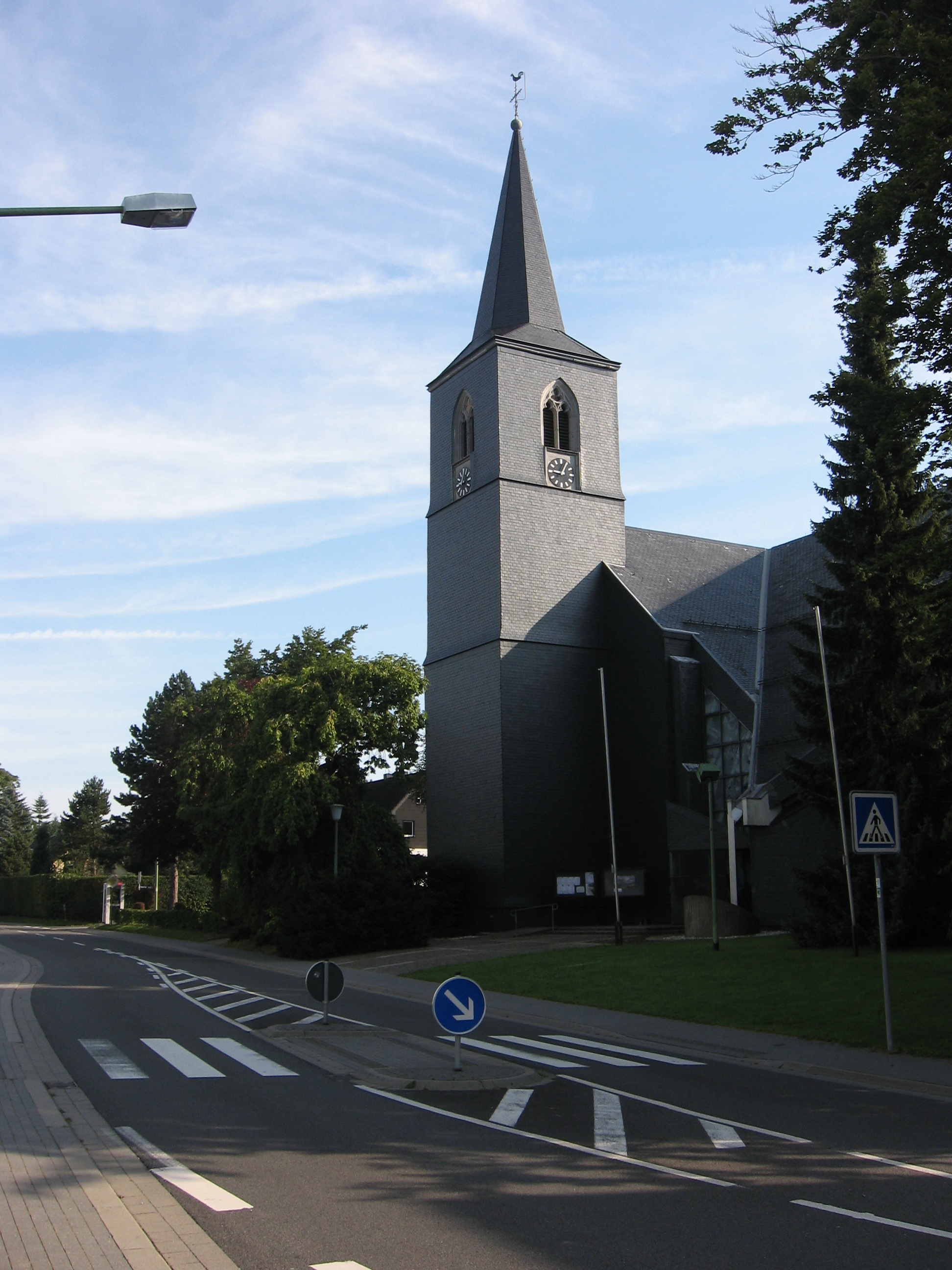 Monschau-Höfen church